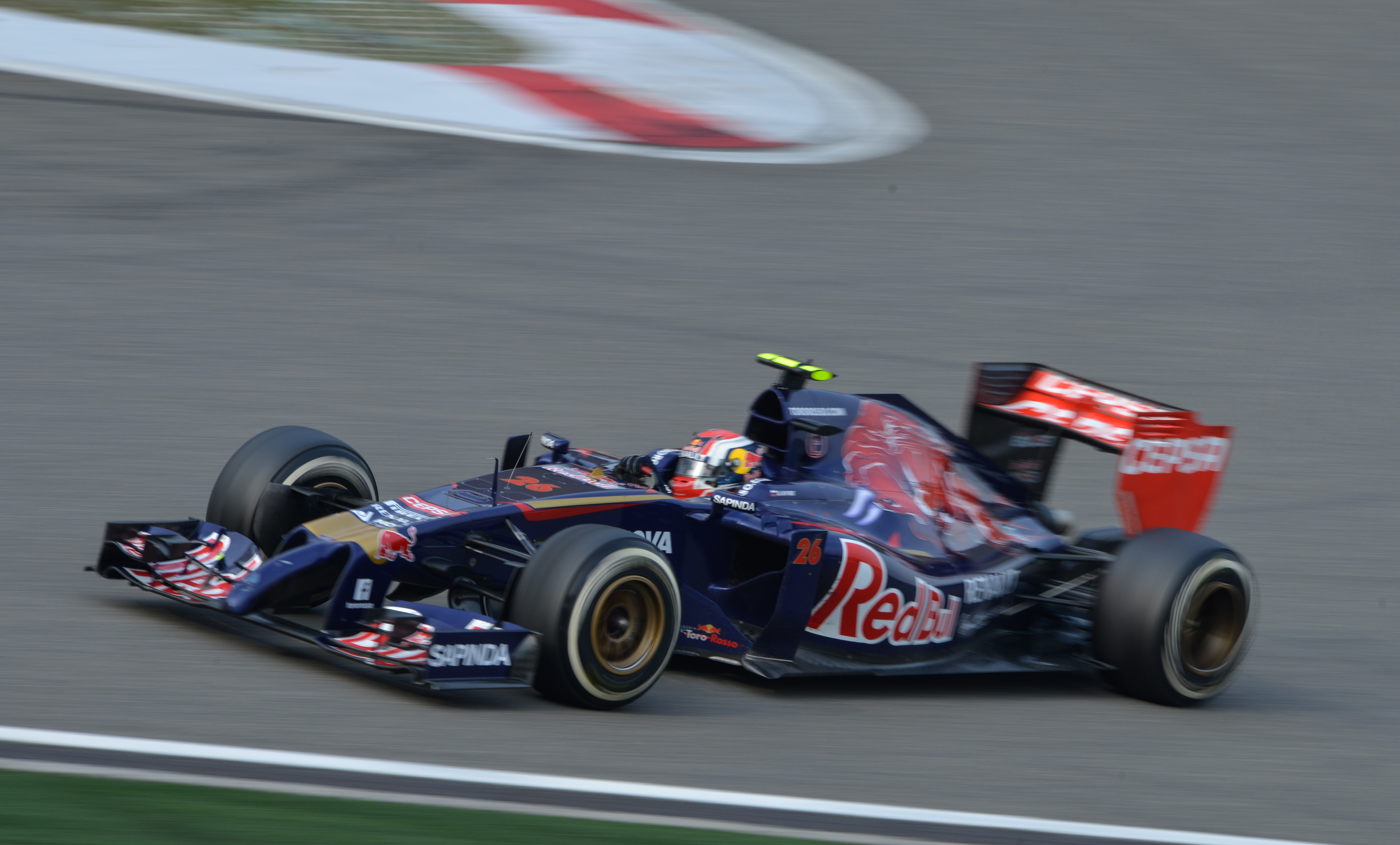 Daniil Kvyat (Toro Rosso)